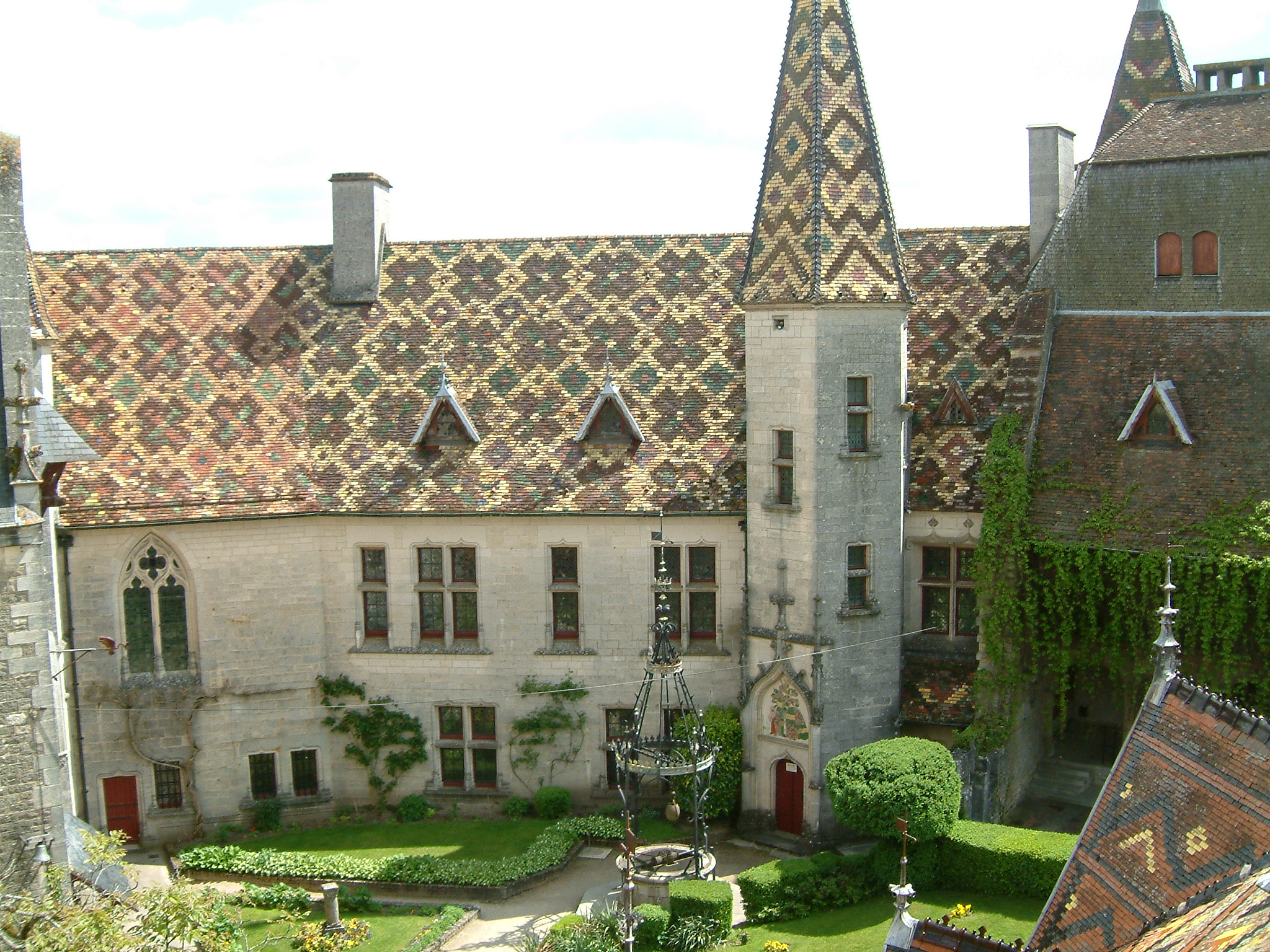 La Rochepot castle. Burgundy, FRANCE.